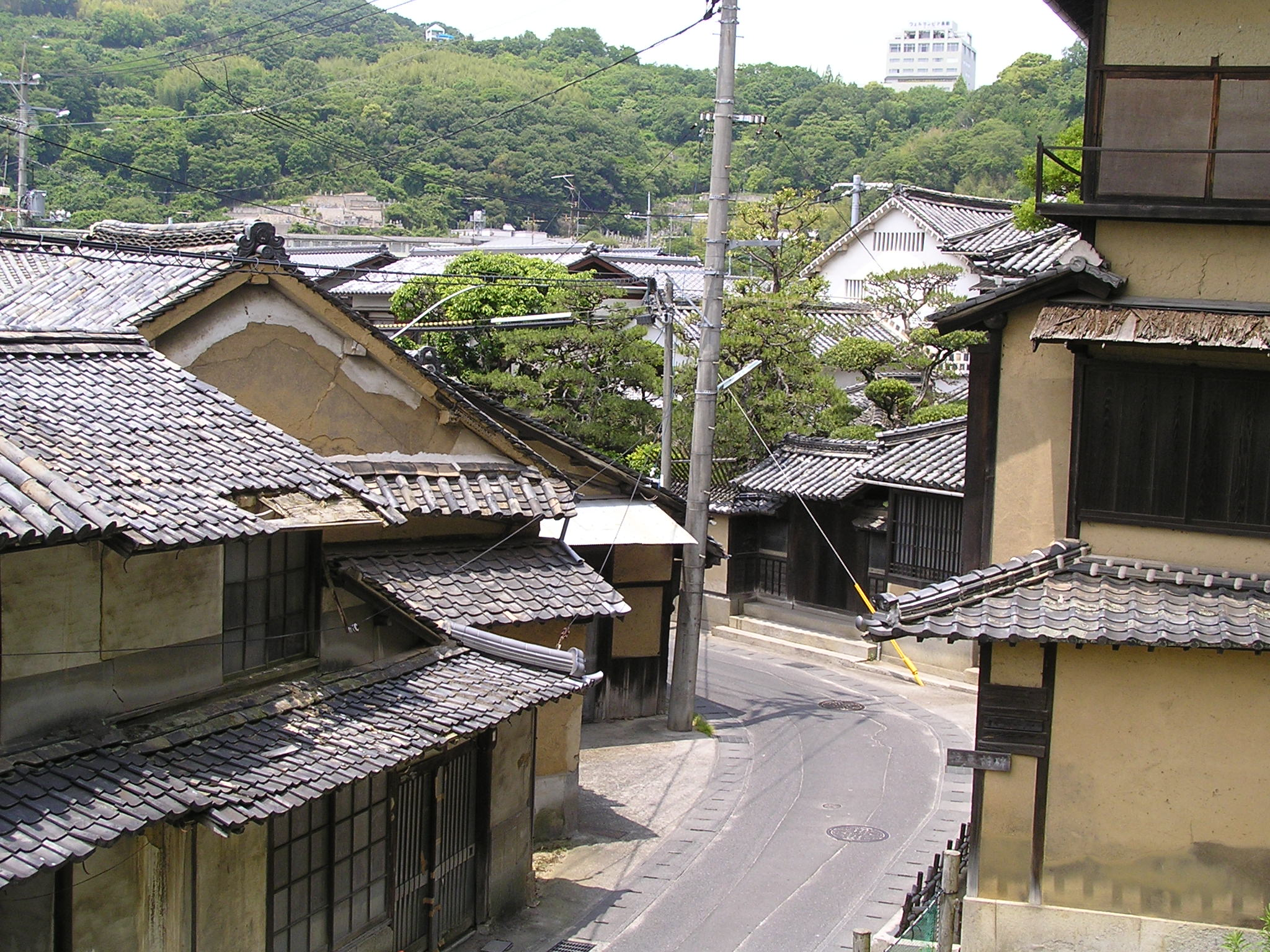 Old town on Kurashiki City Turajima